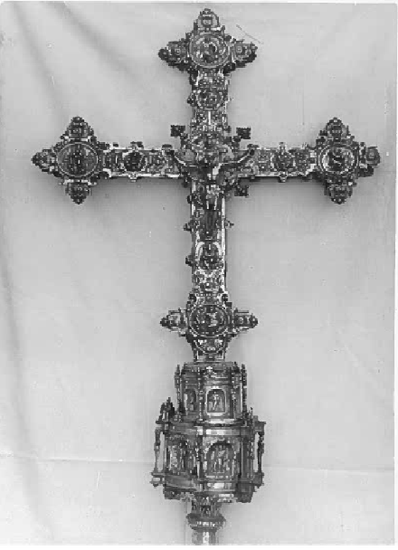 Cruz procesional San Llorente del Páramo (Palencia, Castilla y León).